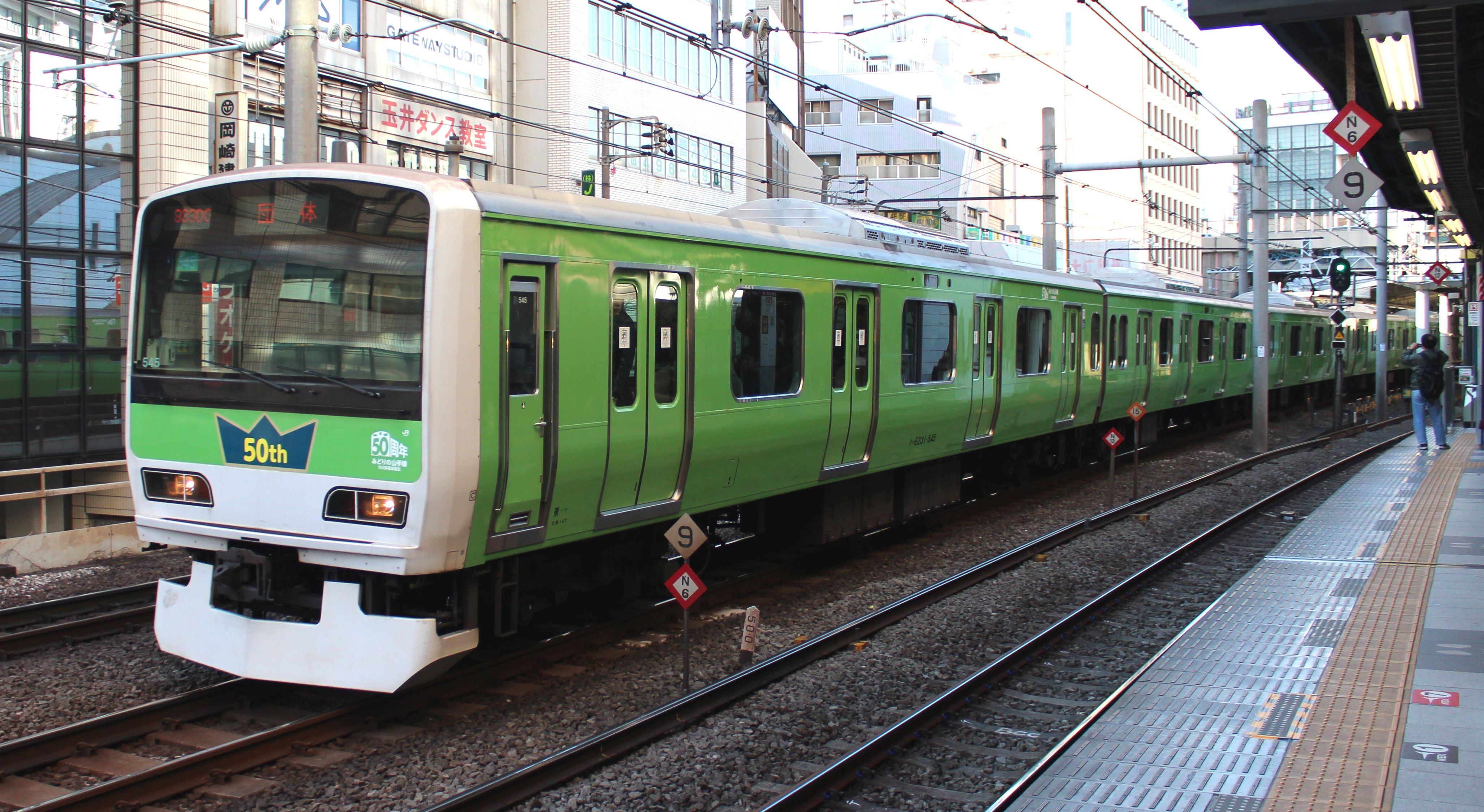 JR East Yamanote Line E231-500 series EMU set 545 in all-over green livery on a special charter service to mark the 50th anniversary of the first appearance of this livery